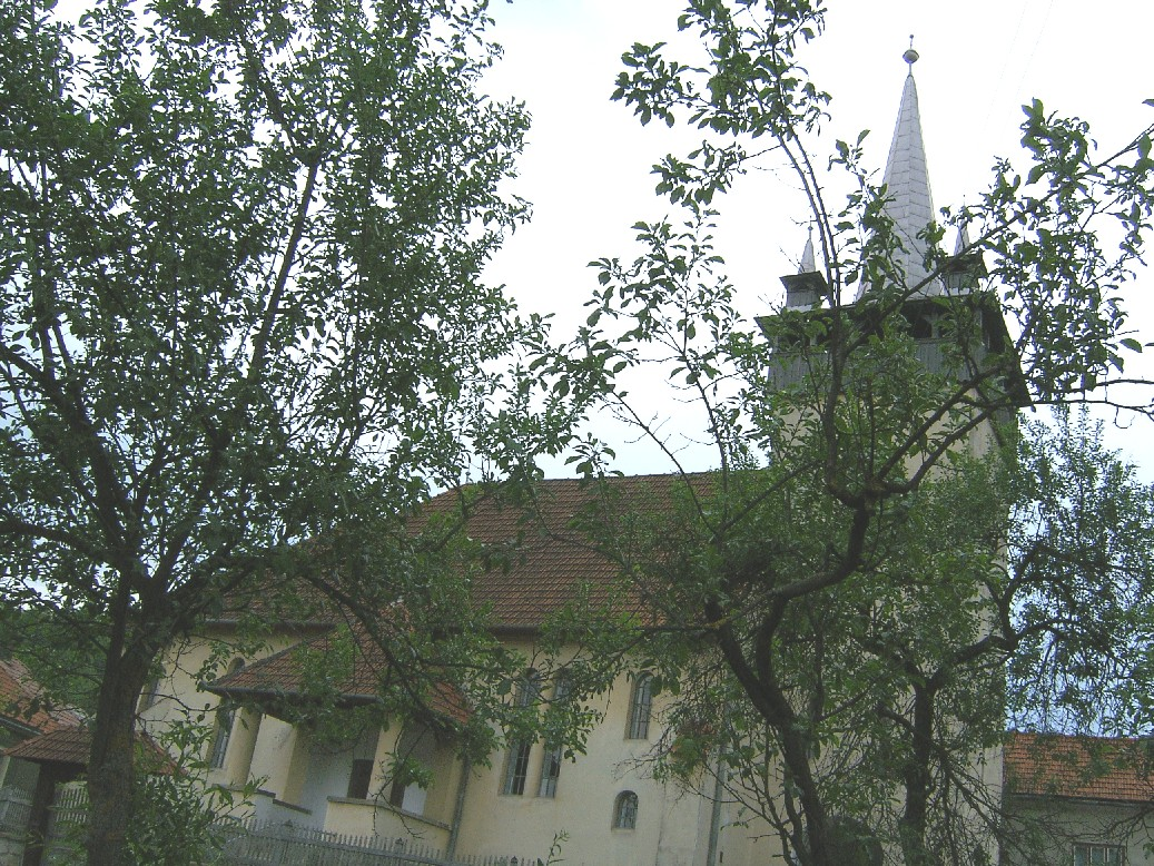 Reformated church of Tetişu, Transylvania